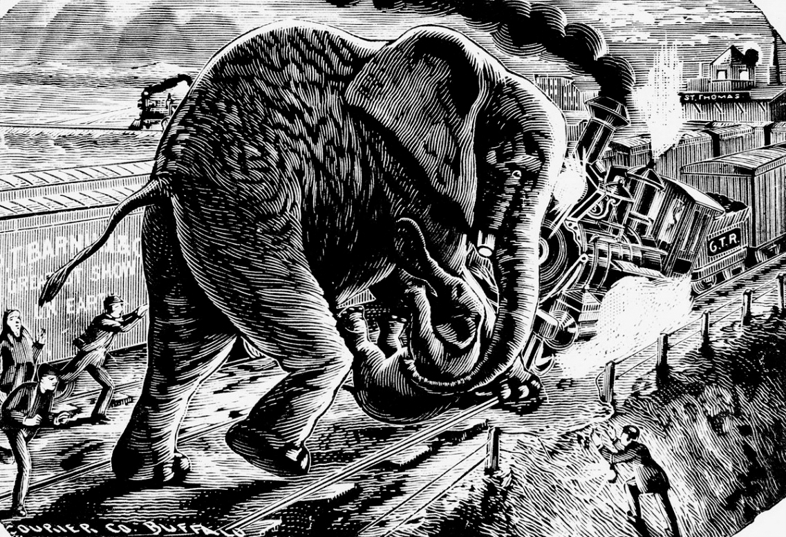 Jumbo saving Tom Thumb